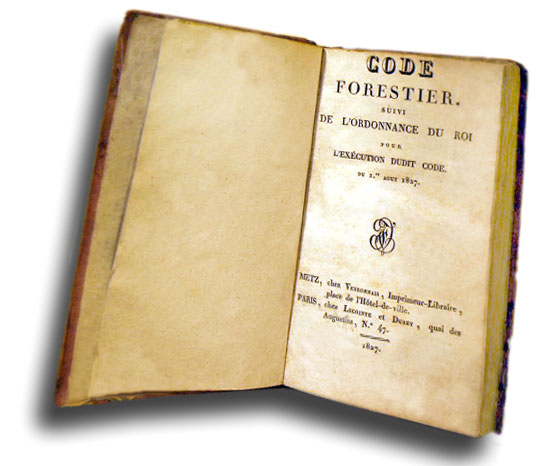 Forest french official code